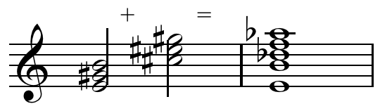 Elektra chord as extended harmony. Created by Hyacinth (talk). Source for information depicted: H. H. Stuckenschmidt; Piero Weiss. "Debussy or Berg? The Mystery of a Chord Progression", The Musical Quarterly, Vol. 51, No. 3. (Jul., 1965), pp. 453-459. See: File:Elektra chord extended.ogg